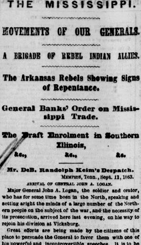 Excerpt of the full "New York Herald" article, "The Mississippi: Movements of Our Generals", which featured a report from the front by American Civil War journalist De Benneville Randolph Keim (writing as DeB. Randolph Keim from Memphis, Tennessee, September 11, 1863; published in the Herald, September 18).